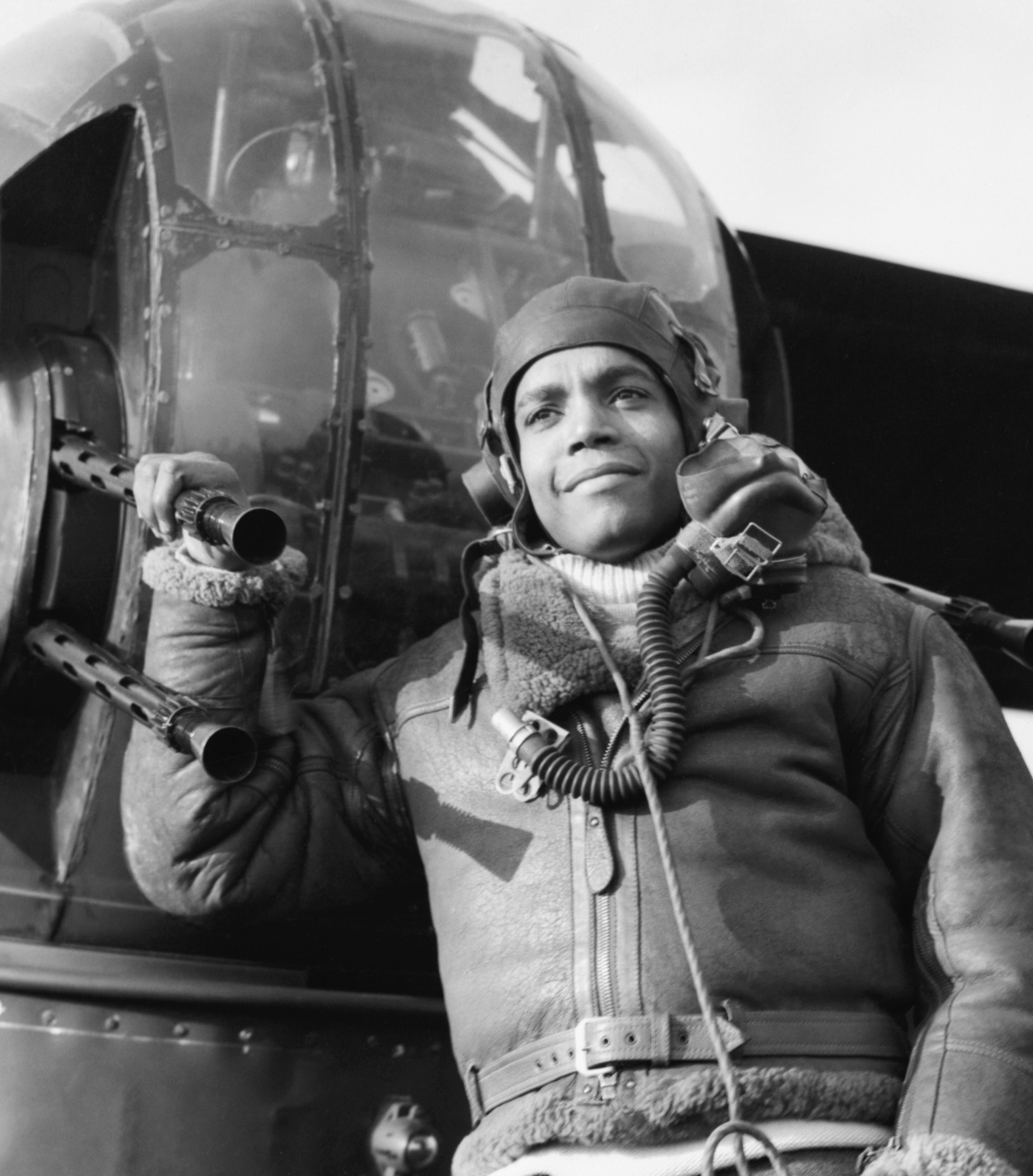 Sergeant Lincoln Orville Lynch DFM, a West Indian air gunner serving with No. 102 Squadron, by the rear turret of his Halifax at RAF Pocklington, February 1944. West Indians in the Royal Air Force: Sergeant Lincoln Orville Lynch DFM, an air gunner serving with No 102 Squadron, Royal Air Force, photographed wearing his flying kit by the rear turret of a Handley Page Halifax at Pocklington, Lincolnshire. Lynch, from Jamaica, volunteered for service in the RAF in 1942, and in 1943 won the Air Gunner's trophy for obtaining the highest percentage of his course during his training in Canada. On his first operational flight with No 102 Squadron he shot down a German Junkers Ju 88.